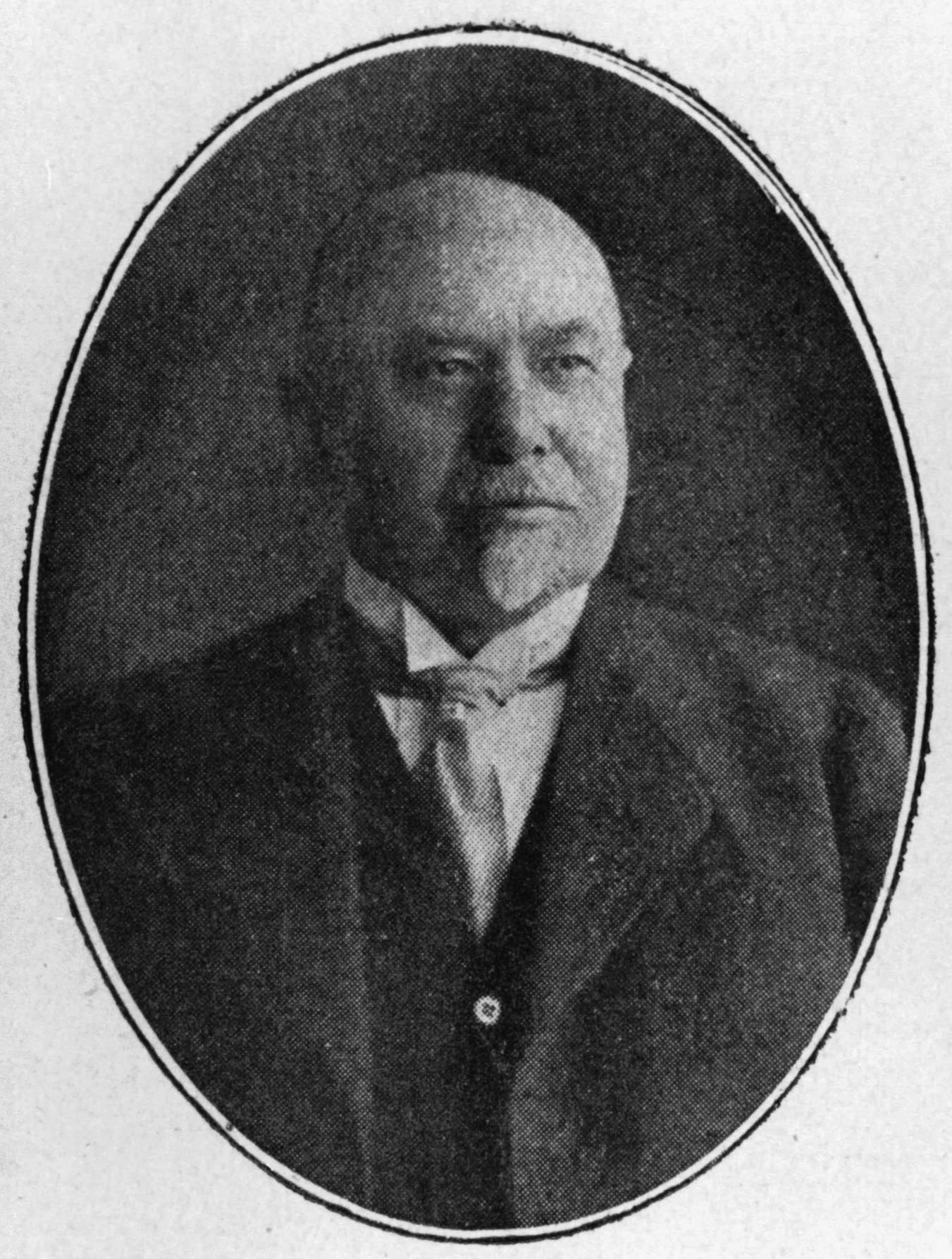 Portrait photo of Louis Gutjahr